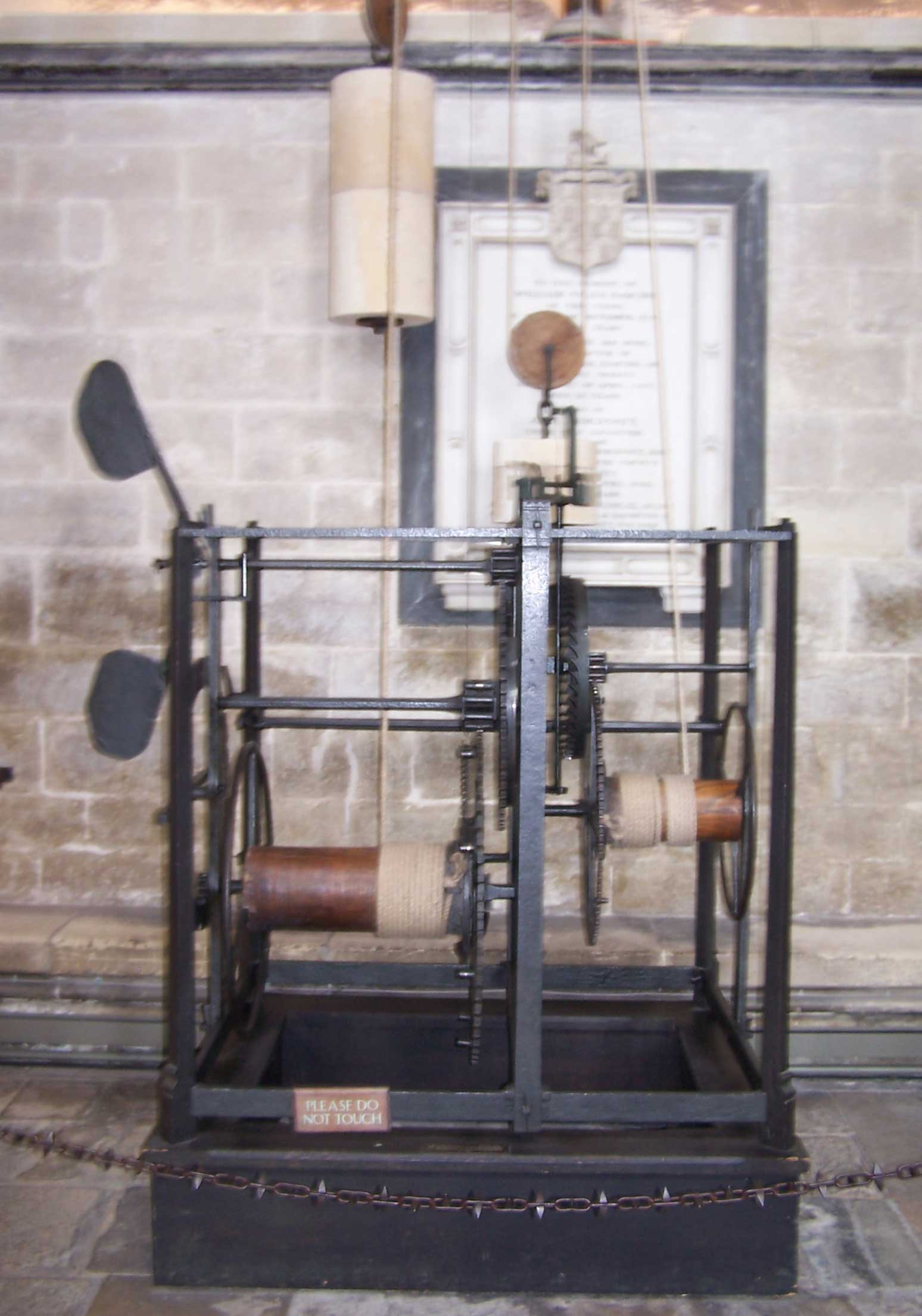 Salisbury cathedral clock at Salisbury Cathedral (St. Mary's), Salisbury, UK. Built sometime around 1386, it is one of the oldest mechanical clocks in the world. It was restored in 1956 and is in working condition, and is one of the oldest working clock in existence. It had no face; it was mounted in a bell tower, and it's function was to ring the canonical hours on a bell, to call the community to prayer.